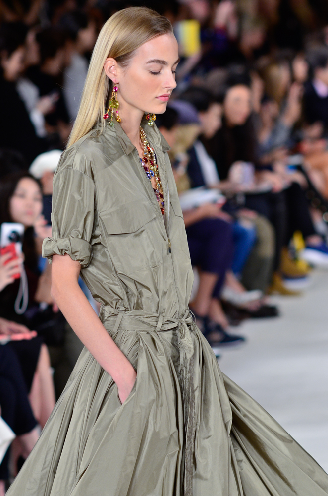 Maartje Verhoef walking the Ralph Lauren Spring/Summer 2015 fashion show.